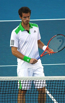 Andy Murray on AO 2011